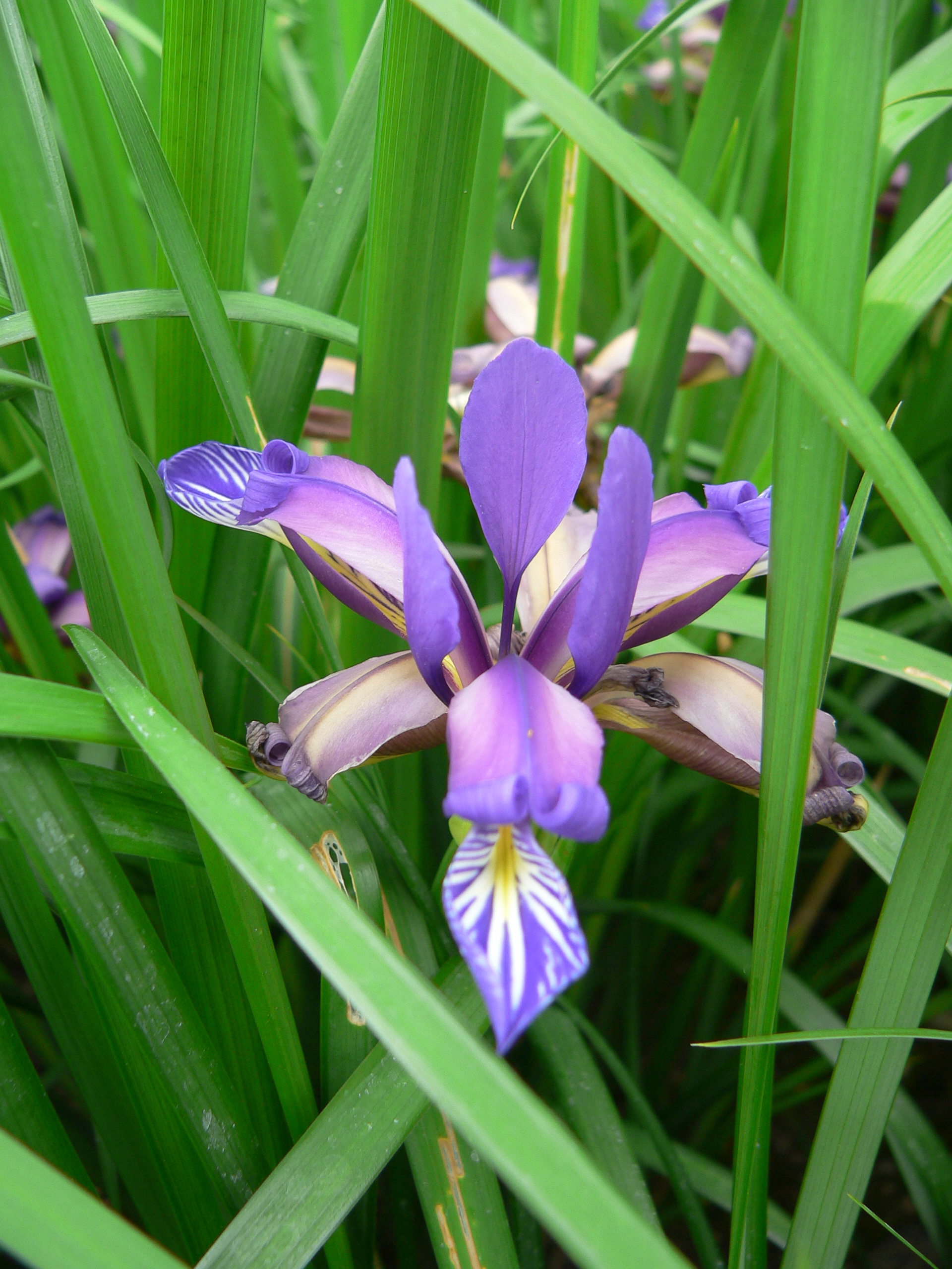 Iris graminea